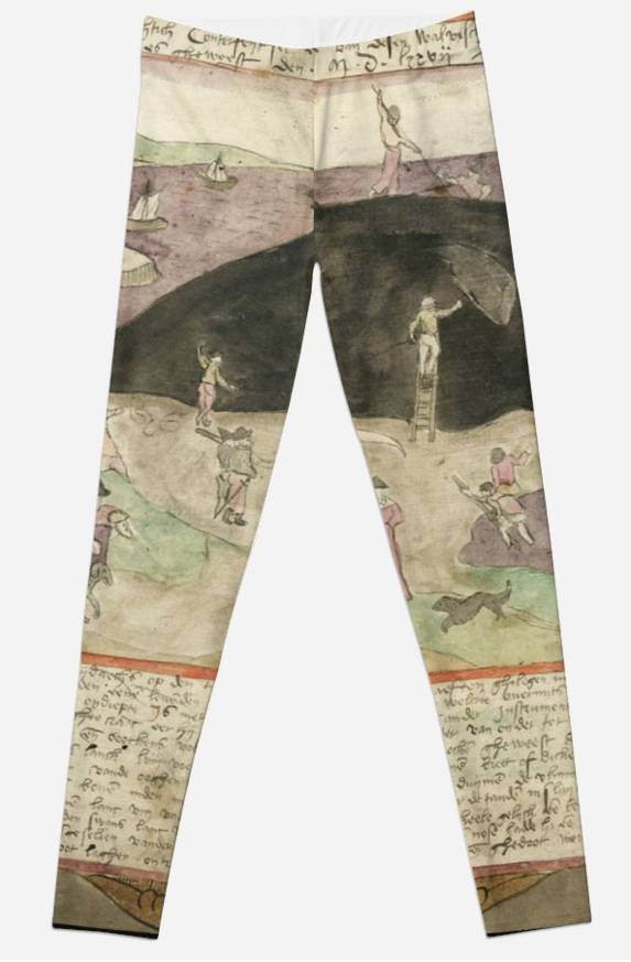 Legging based on Adriaen Coenen's Visboeck. The original image printed on the legging is this one from the collection of the KB.